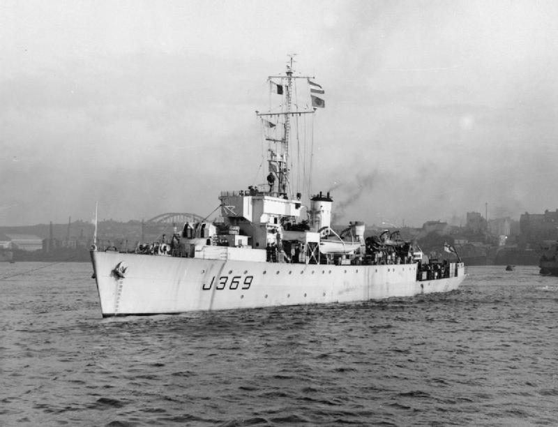 HMS Felicity Underway.